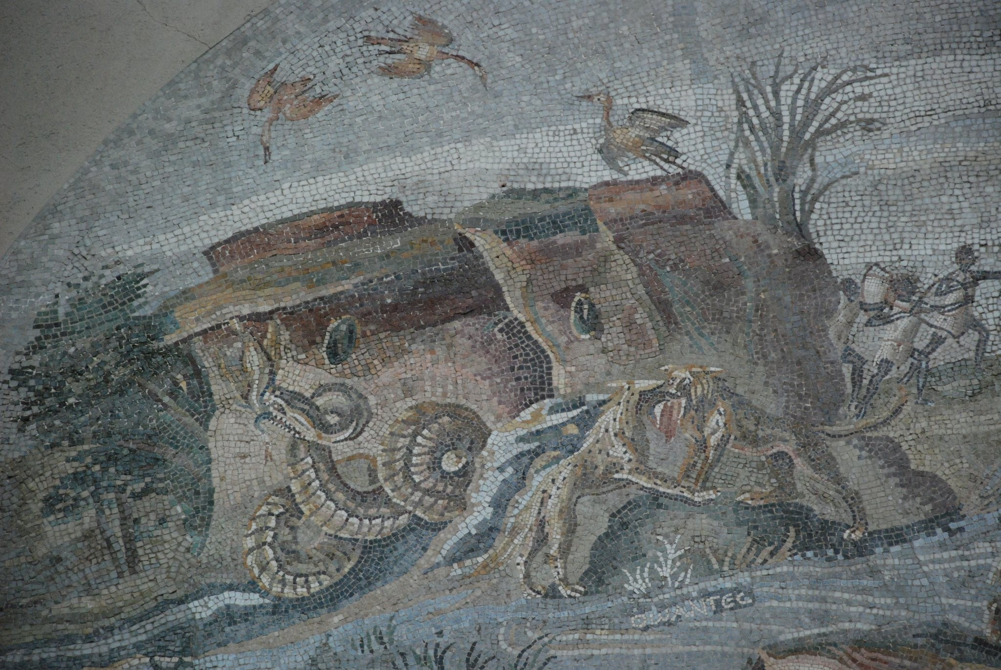 Detail of the Nile mosaic at the National Archeological Museum of Palestrina